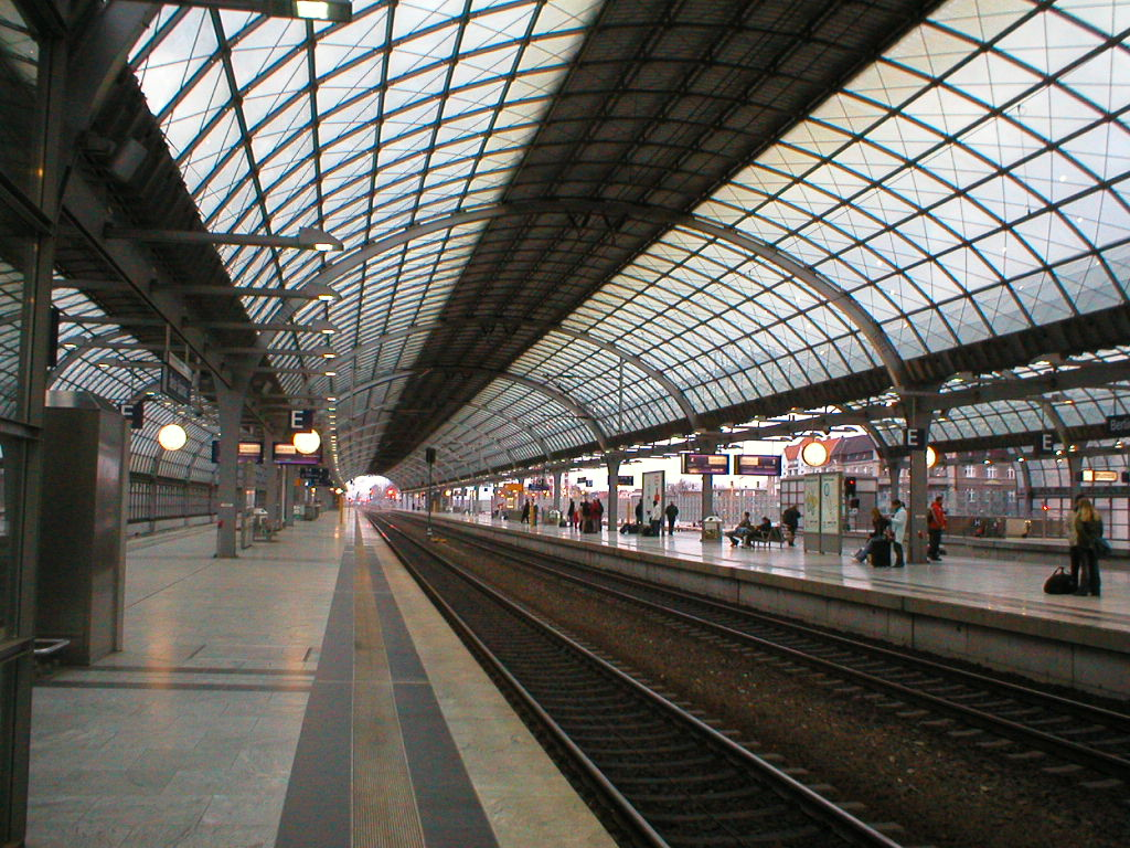 Train hall of the station Berlin-Spandau